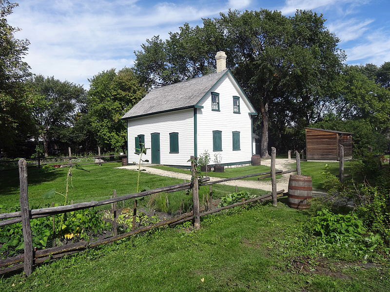 Riel House in Winnipeg, Manitoba